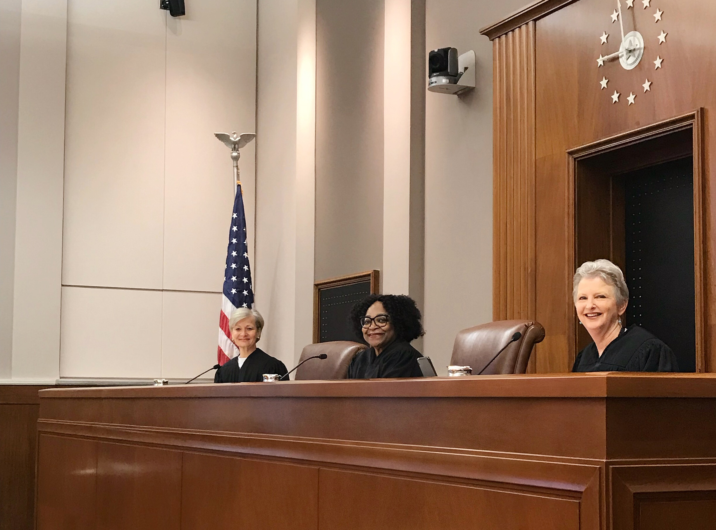 An all-women appellate panel of the United States Court of Appeals for the Ninth Circuit heard oral arguments March 8, 2018 at the William K. Nakamura U.S. Courthouse in Seattle. The panel consisted of Ninth Circuit Judges Johnnie B. Rawlinson of Las Vegas and Morgan Christen of Anchorage, Alaska, and, sitting by designation, Chief District Judge Nancy D. Freudenthal of the U.S. District Court for the District of Wyoming.